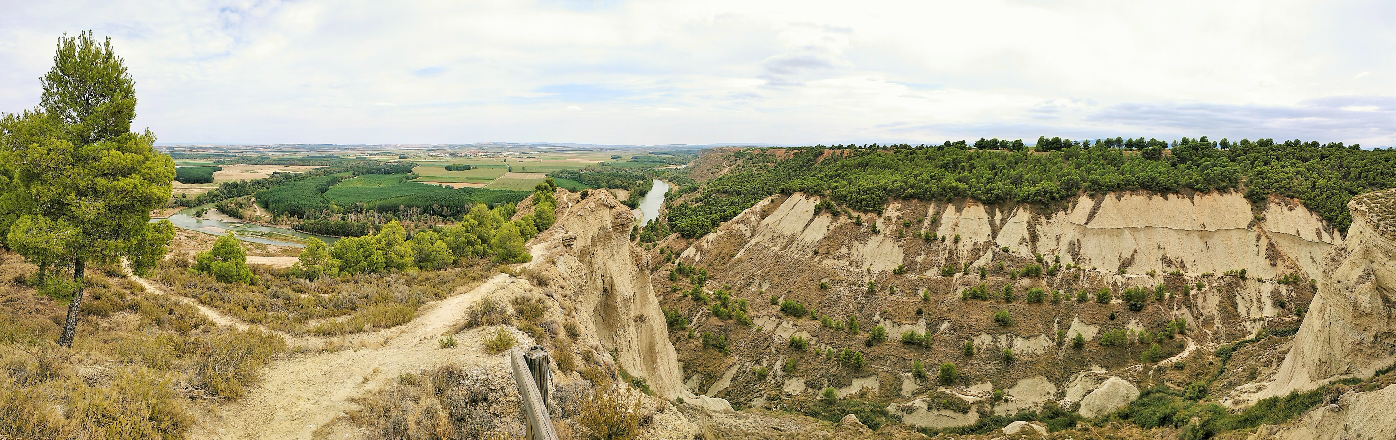 Barranco del Rey ("The King's Cliff"), Peñalen (Funes), Navarre